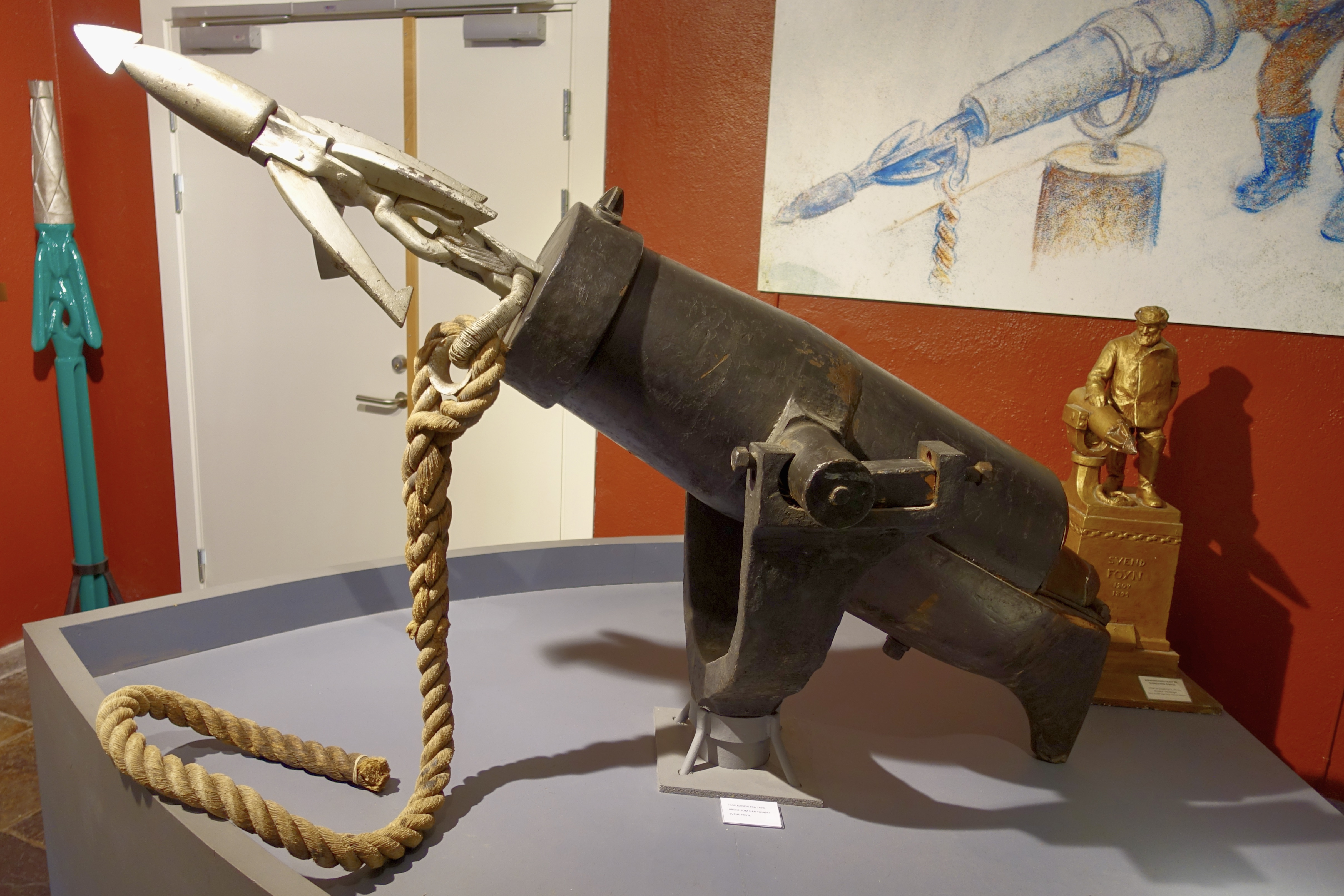 A whaling harpoon cannon used by Svend Foyn 1870, etc. From the exhibition on Svend Foyn (1809–1894), a Norwegian whaling pioneer introducing the modern harpoon cannon in 1870, at the Slottsfjellsmuseet, a local history museum in Tønsberg in Vestfold og Telemark County, Norway. Photo taken on January 21st, 2020.